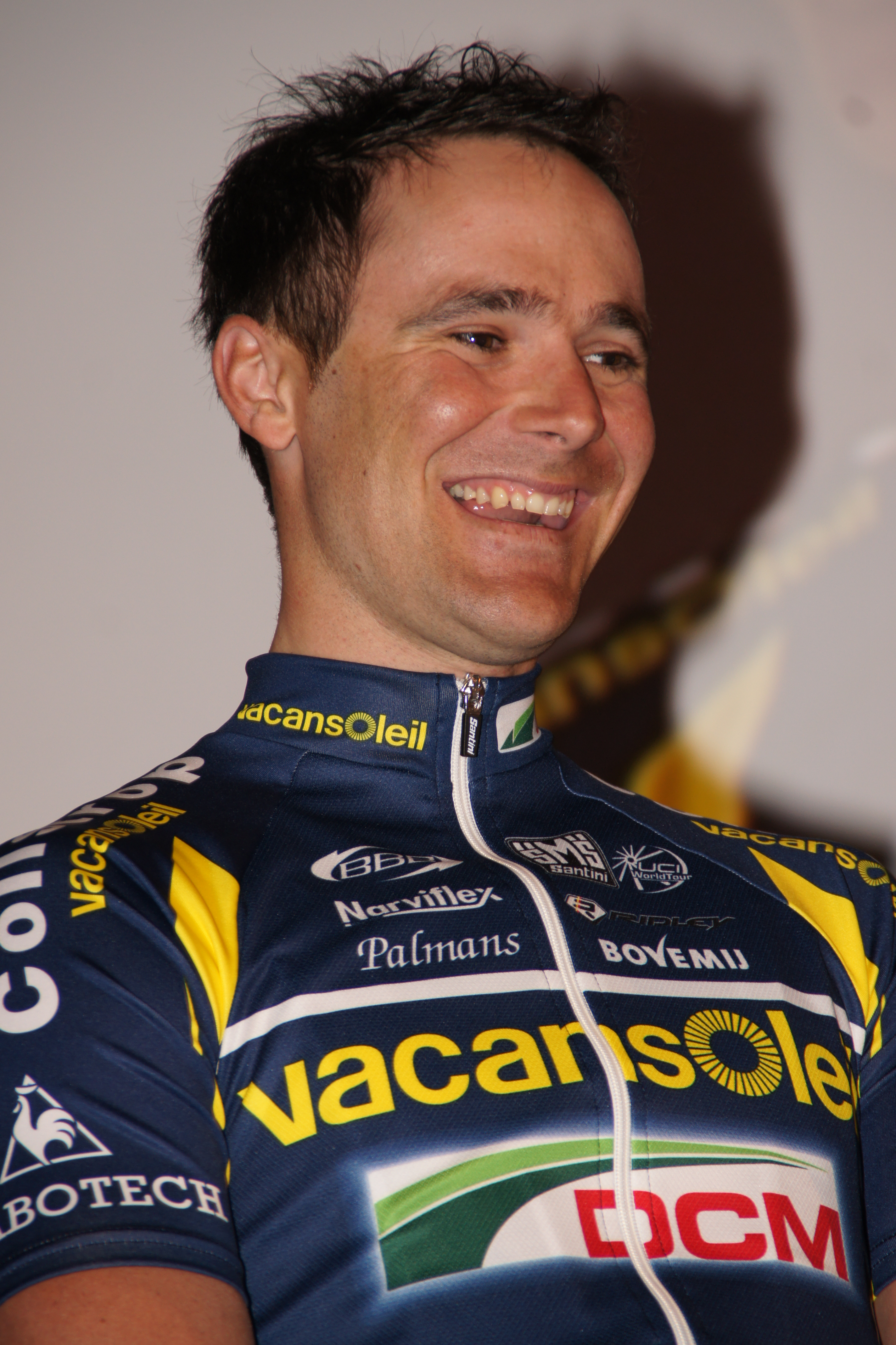 Borut Božič during the team presentation of the Vacansoleil-DCM team for 2011